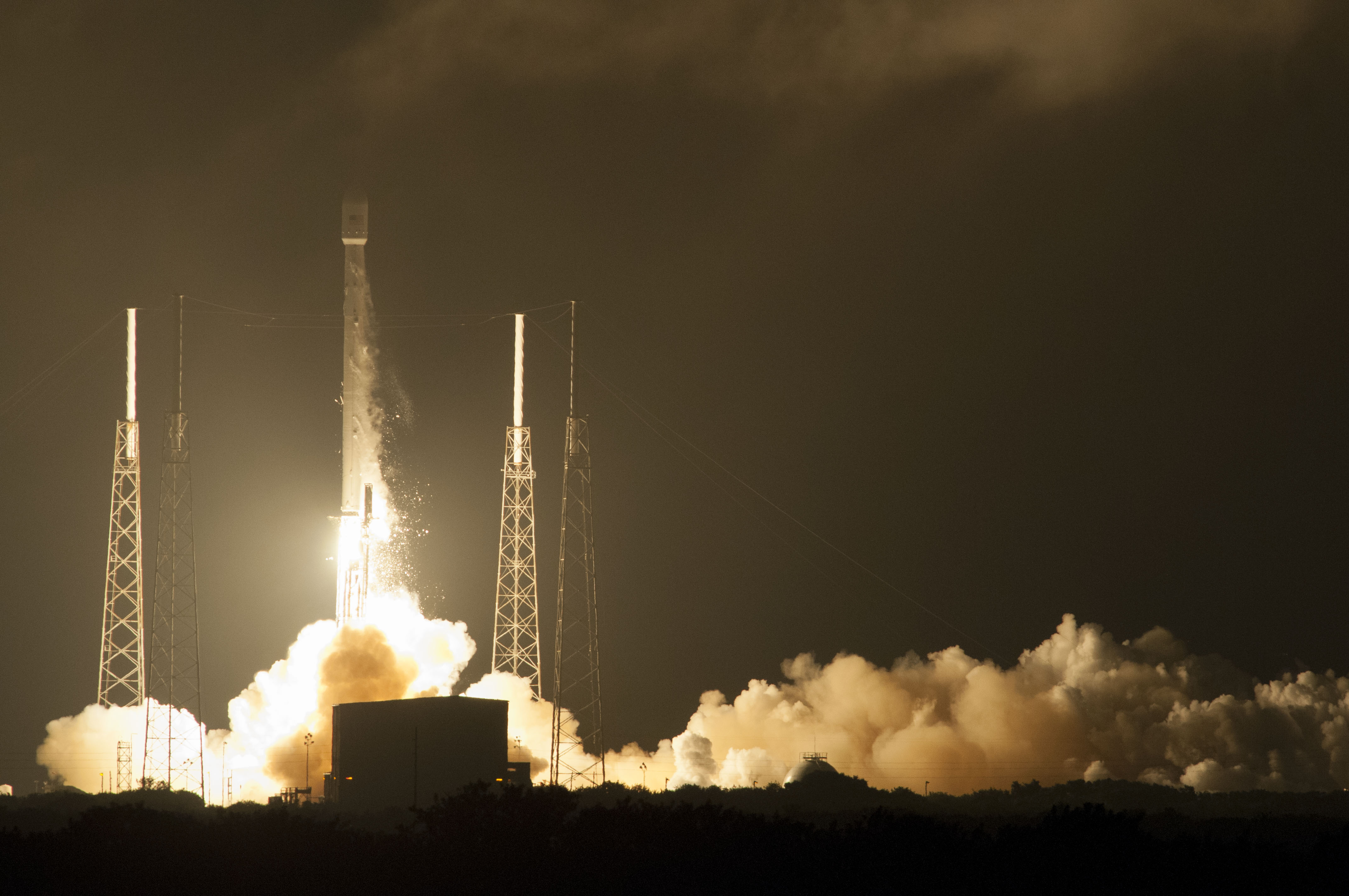 SpaceX's Falcon 9 rocket launched the AsiaSat 8 satellite to a geosynchronous transfer orbit at 4am EDT on August 5, 2014.